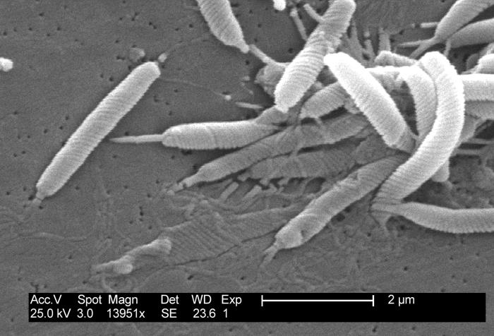 This scanning electron micrograph depicts a grouping of Gram-negative ”Flexispira rappini” bacteria, magnified 13,951x. Its name ”F. rappini” is considered provisional, for it was never formally proposed or accepted. Subsequently determined to be closely related to Helicobacter spp., it is referred to as Helicobacter sp. flexispira in the literature.